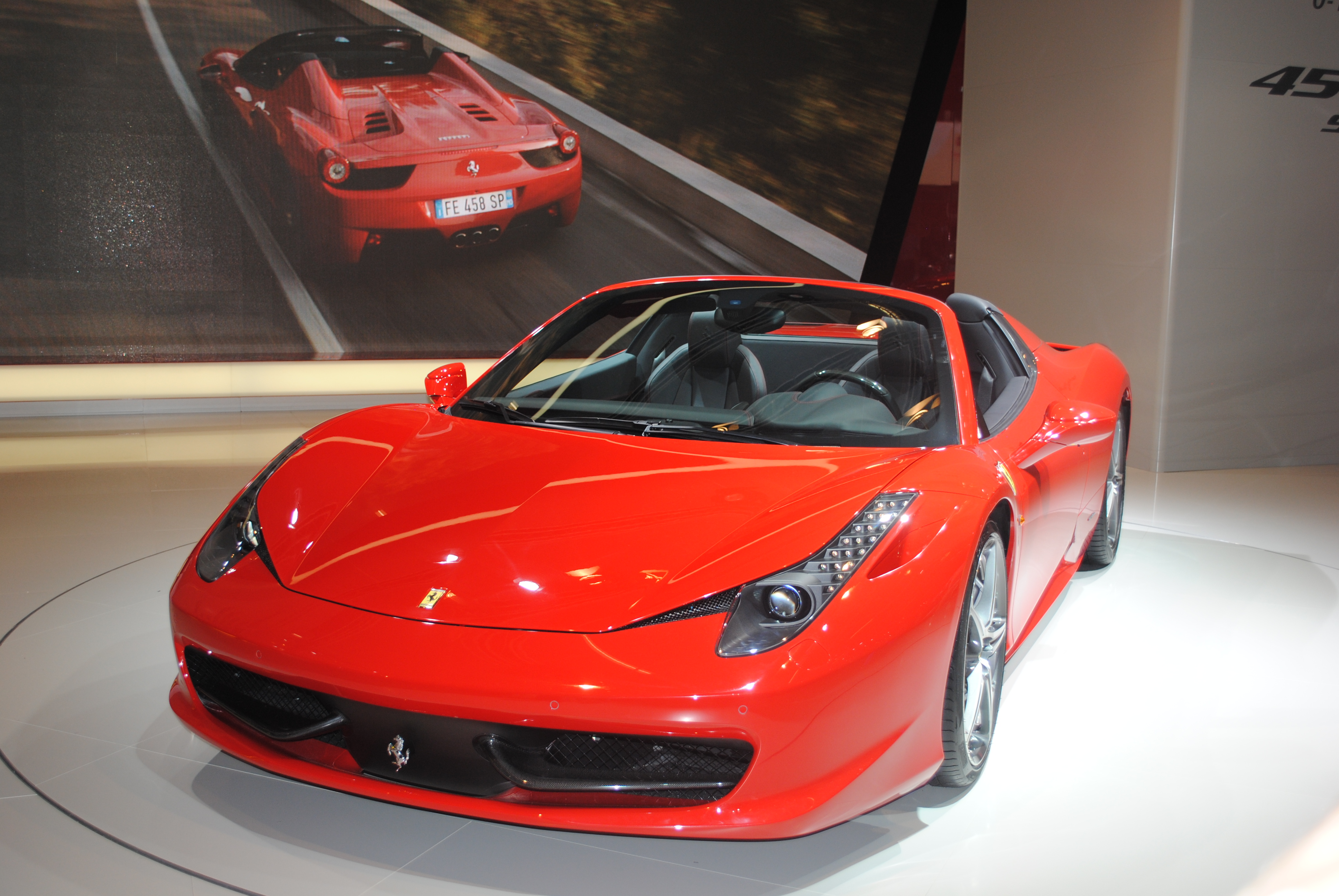 More photos and info